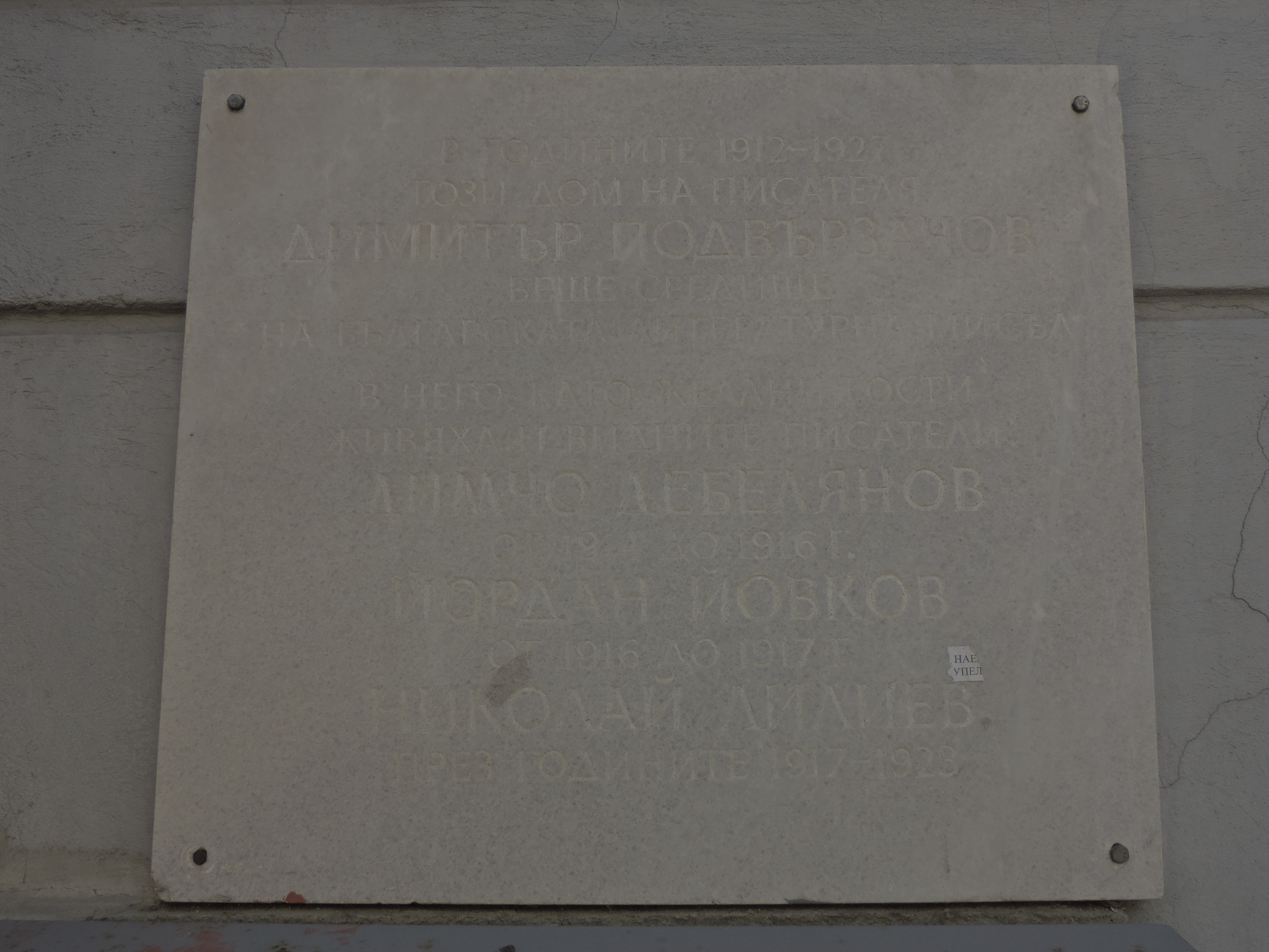 Memorial plaque on the house at 10 Hristo Botev Str, Sofia, where the Bulgarian writer Dimitar Podvarzachov lived from 1912 to 1927. Also, in different periods of time there lived the writers: Dimcho Debelyanov (1914-1916) Yordan Yovkov (1916-1917) Nikolay Liliev (1917-1923)